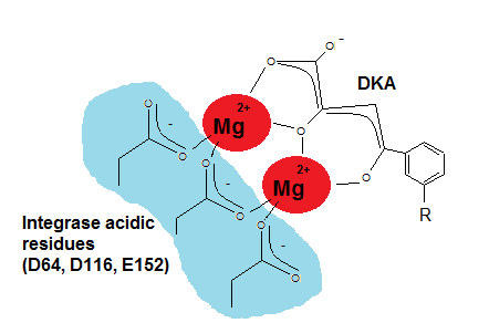 Binding of DKA to integrase amino acids recidues.